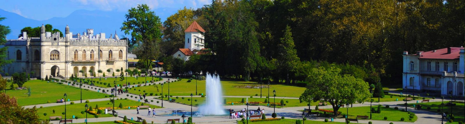 Dadiani Palaces - Zugdidi museum